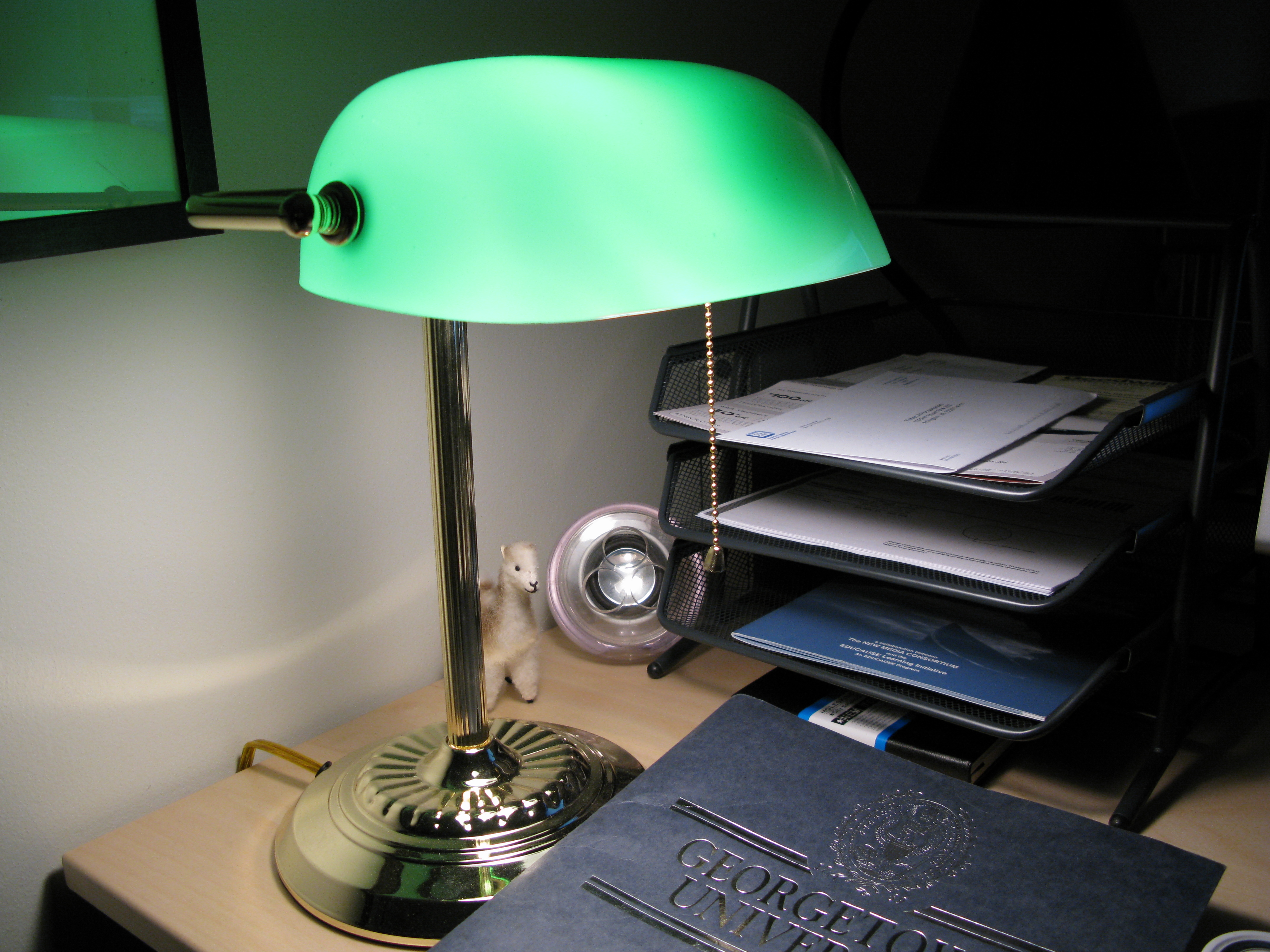 A banker's lamp.